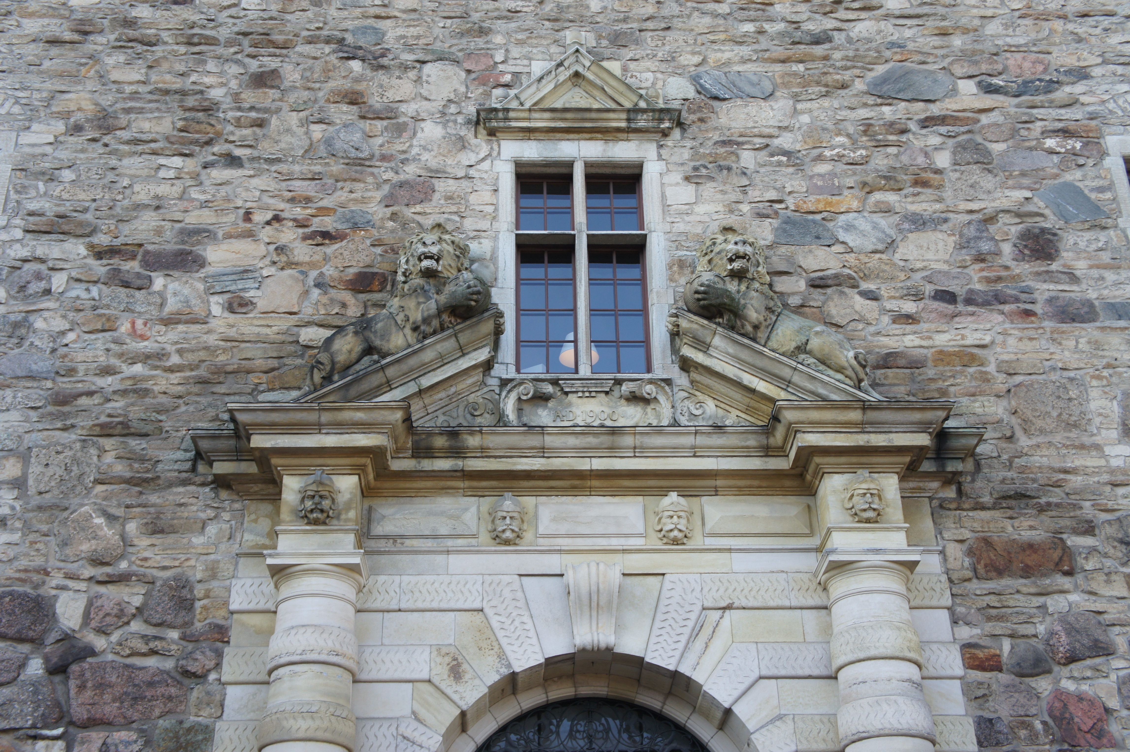 Portal over entrance, Örebro castle, Sweden